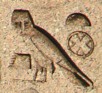 Close-up of Luxor Obelisk, and hieroglyphs: Kmt “Egypt”.